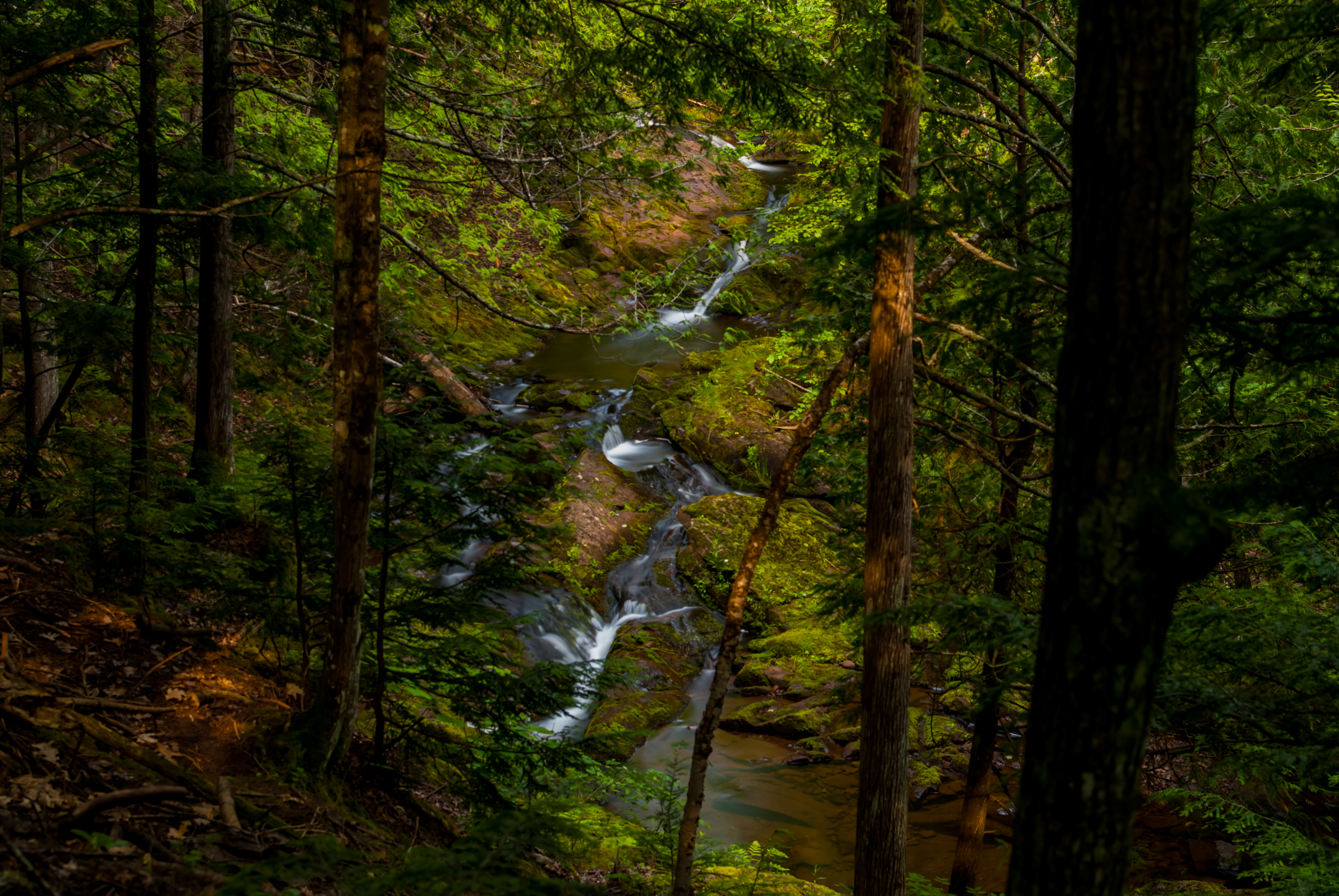 A view back into the gorge at the Little Union River